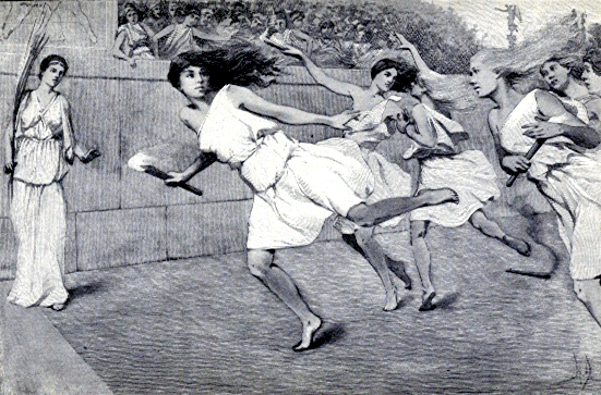 Elementary history of Greece, made up principally of stories about persons, givingat the same time a clear idea of the most important events in the ancient world and calculated to enforce the lessons of perseverance, courage, patriotism, and virtue that are taught by the noble lives described. Beginning with the legends of Jason, Theseus, and events surrounding the Trojan War, the narrative moves on to present the contrasting city-states of Sparta and Athens, the war against Persia,their conflicts with each other, the feats of Alexander the Great, and annexation by Rome.